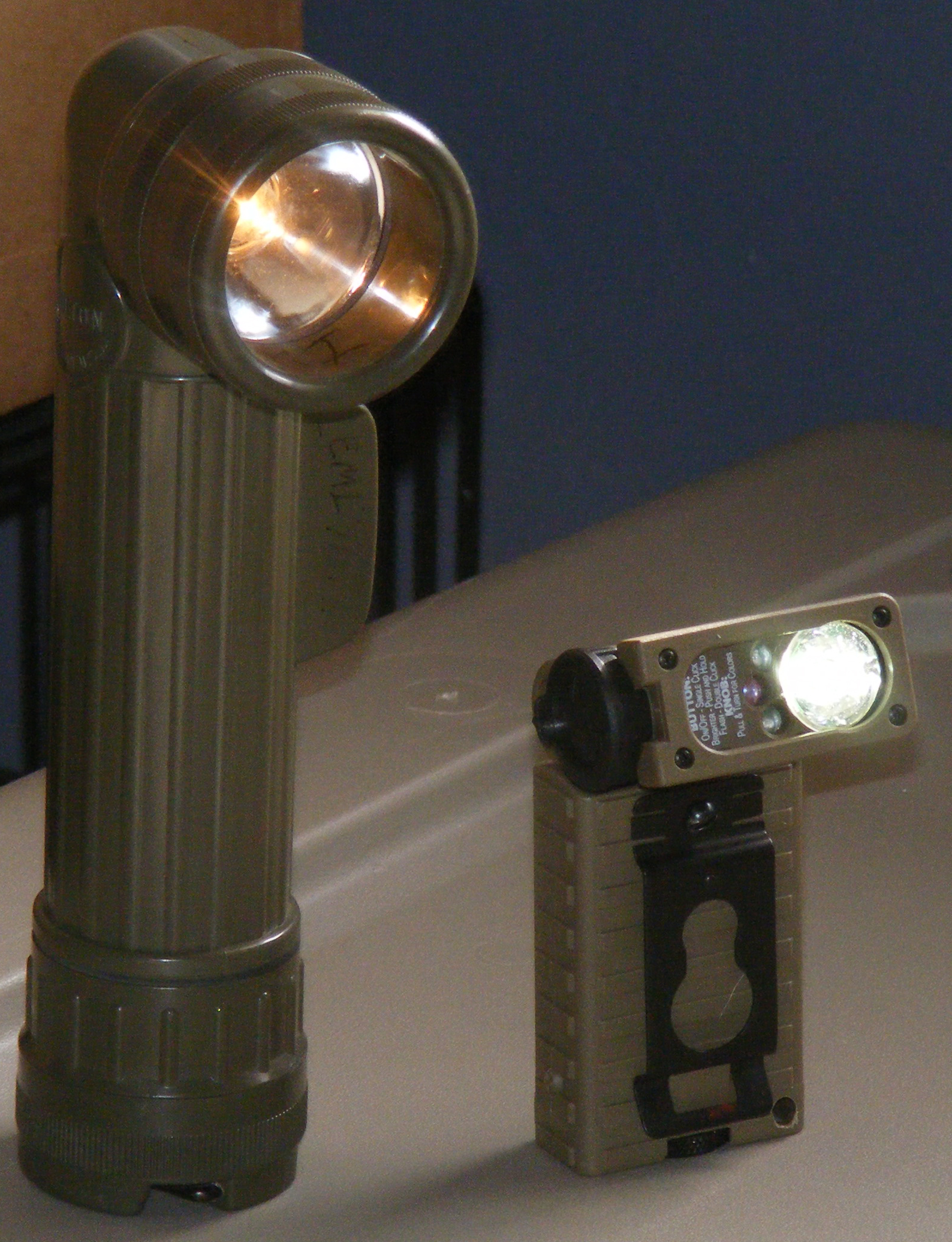 Two flashlights commonsly used by the United States Marine Corps. The left is a plastic Vietnam War-era "moonbeam", bought by recruits and powered by D-cell batteries. The right is a new tactical flashlight, issued by the Corps and powered by AA-cell batteries. It uses Light-emitting diodes to project five different intensities of white, red, blue, and infrared light, including a strobe function and a helmet mount.